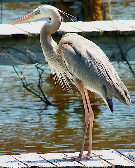 Würdemann's Heron: Great Blue Heron x Great White Heron (Ardea herodias -- Family: Ardeidae). Flamingo, Everglades National Park, Monroe Co., Florida 04/07/2007